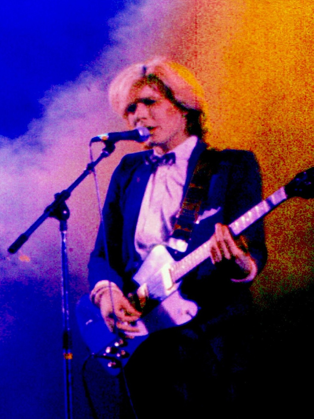 Ryerson Theater, Toronto, Nov. 24, 1979 Photo by Jean-Luc Ourlin